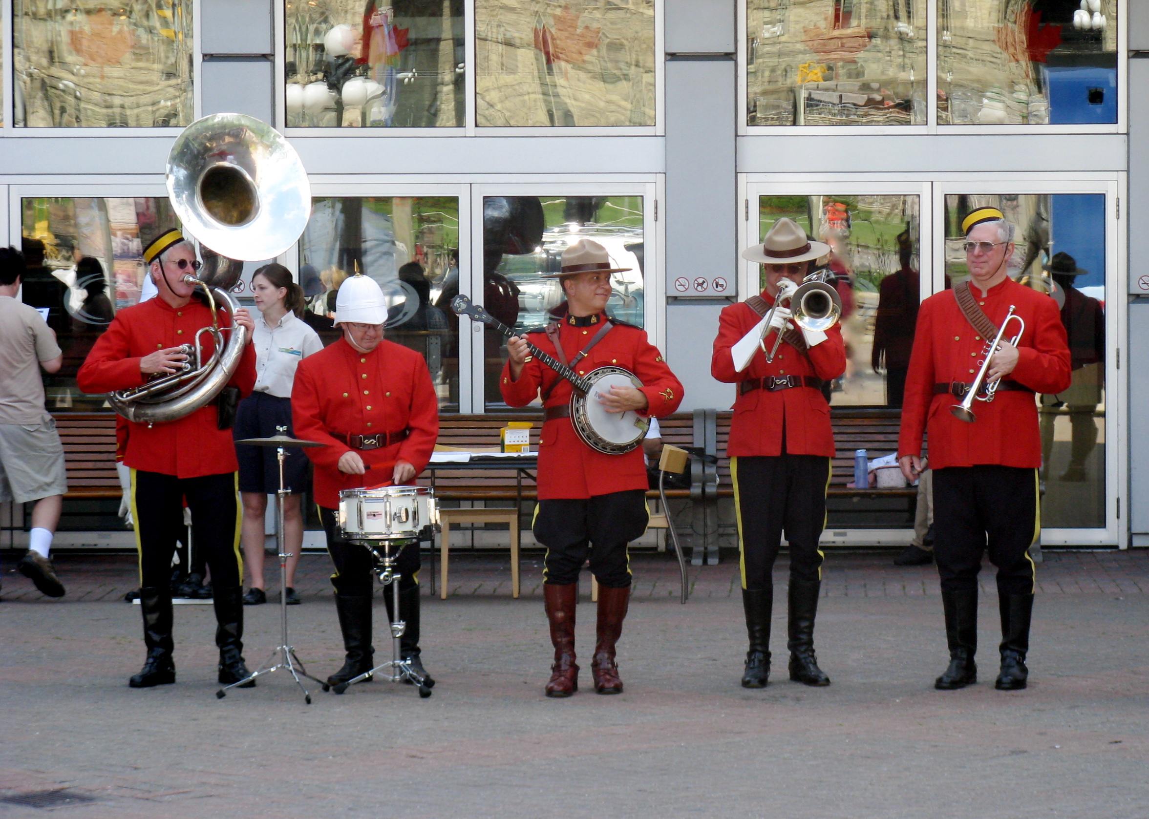 The RCMP Northwest Mounted Strolling Dixieland Band perform in Ottawa, Canada.